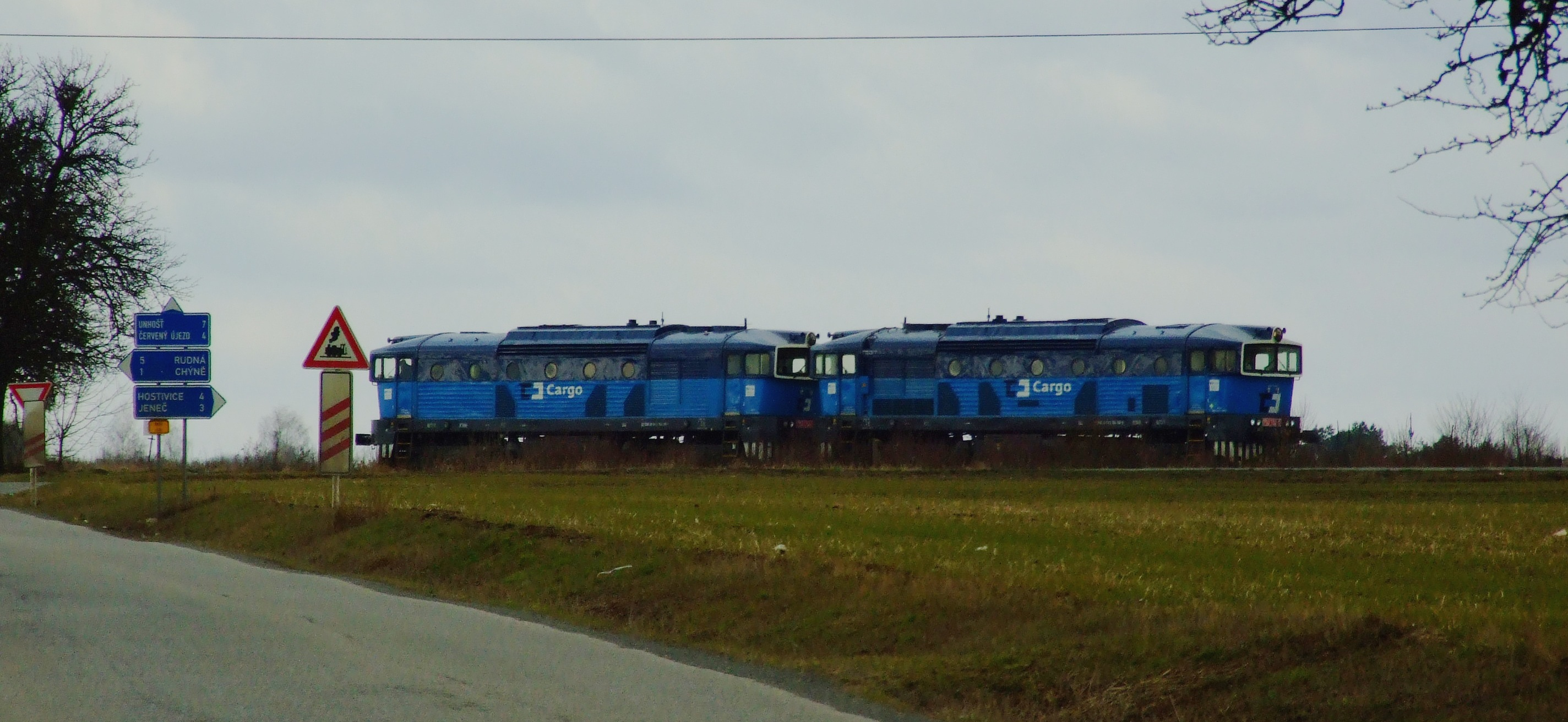 Trains in Hostivice-Litovice (track Hostivice-Rudná) in Prague-West District, Central Bohemian Region, the Czech Republic.